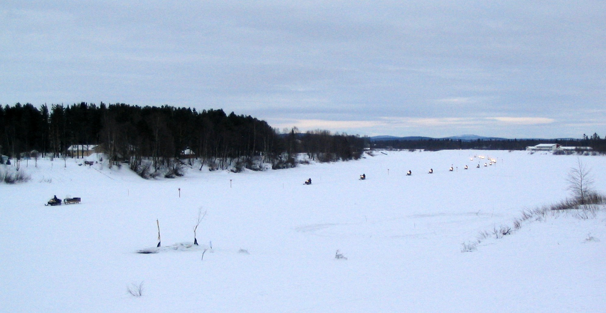 Snowmobile caravan, river Ivalojoki in the winter, Ivalo, Finland.